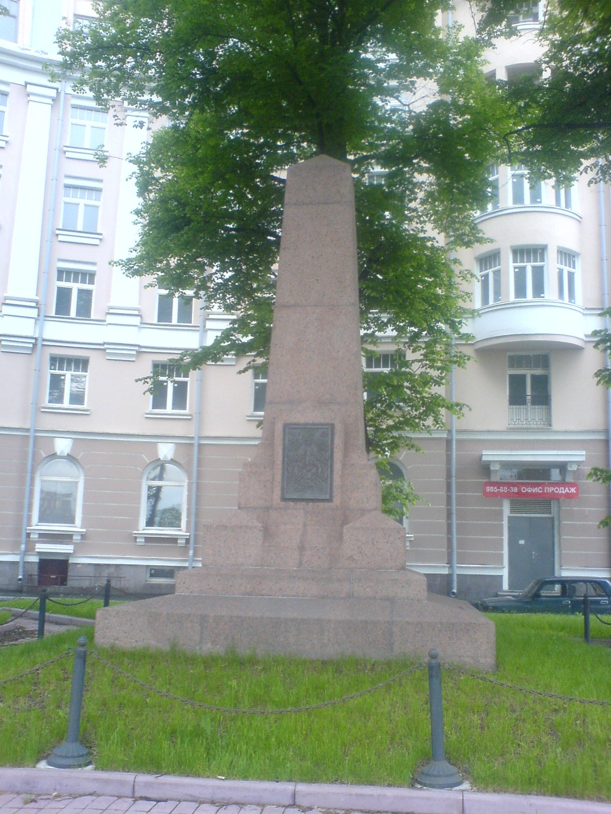 Commemorative mark on the place of explosion in Stolypin's house - the Aptekar Island, Saint-Petersburg (modern view)